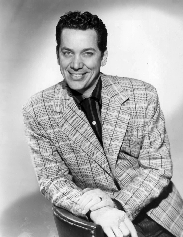 Photo of actor John Conte from the television program Matinee Theater. Conte was the host of this show.